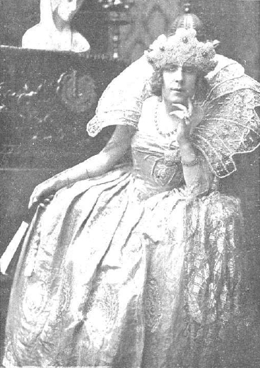 "Several photographs of the famous songwriter impersonator Edmond D'Bries, who made his debut last Monday at the Teatro Maravillas with extraordinary success."